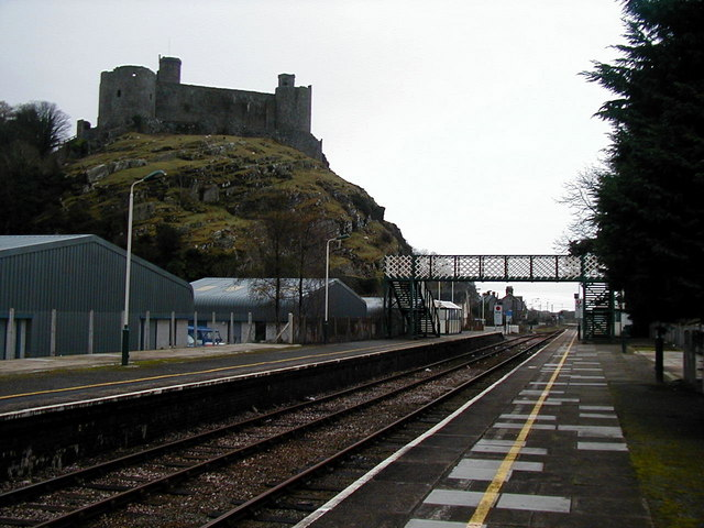 Harlech Railway Station, near to Harlech, Gwynedd, Great Britain. Dominated by the castle on the hill.